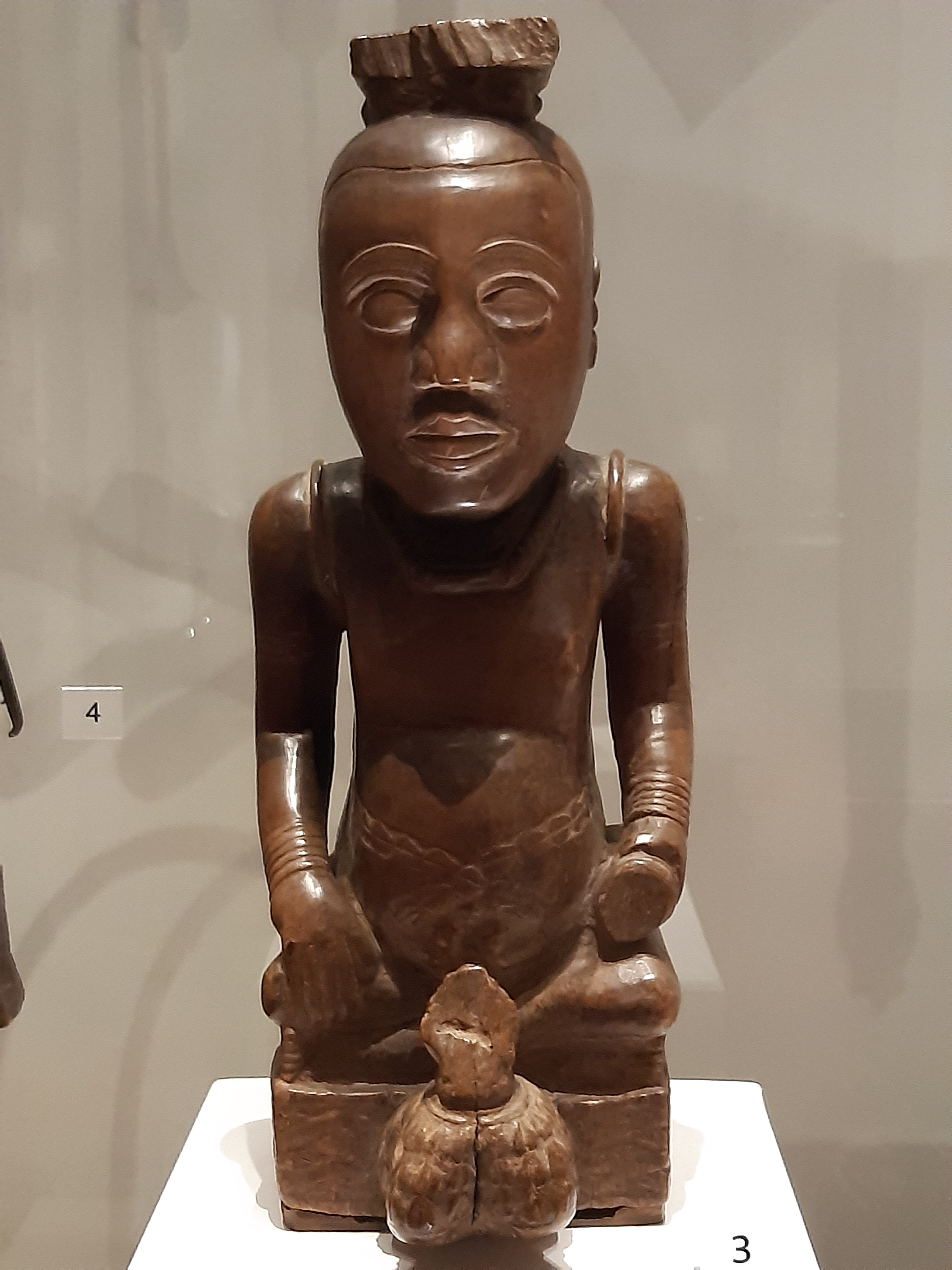 Ndop statue from Congo in the British Museum